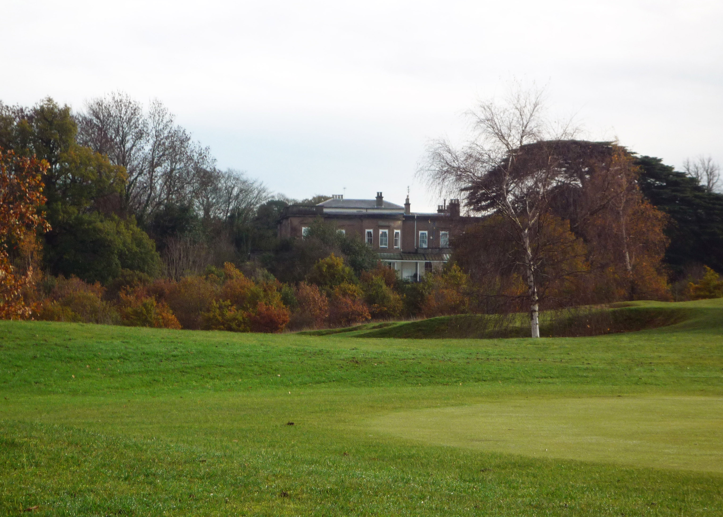 Westbrook Hay